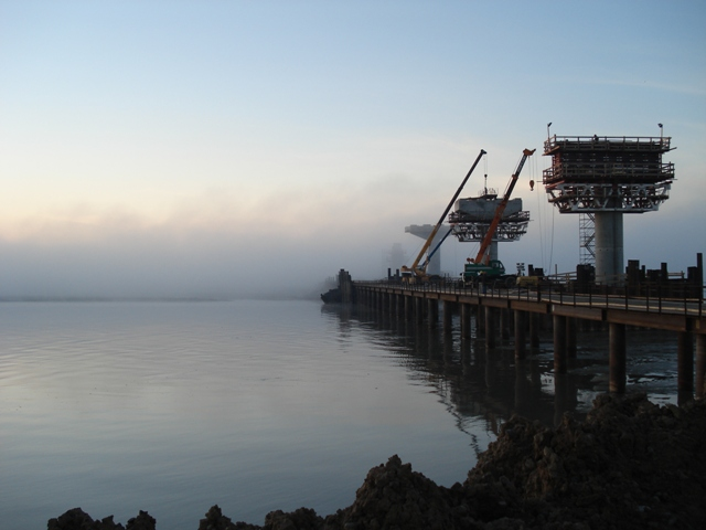 Construction of Afghanistan-Tajikistan Bridge during a foggy day